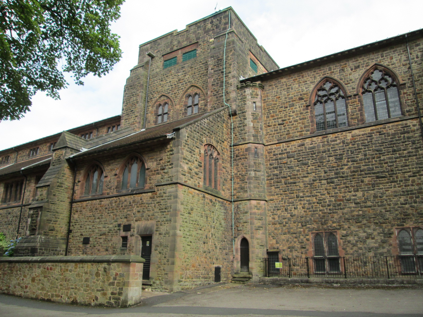 All Saints' Church, in Leek, Staffordshire, seen from the south.